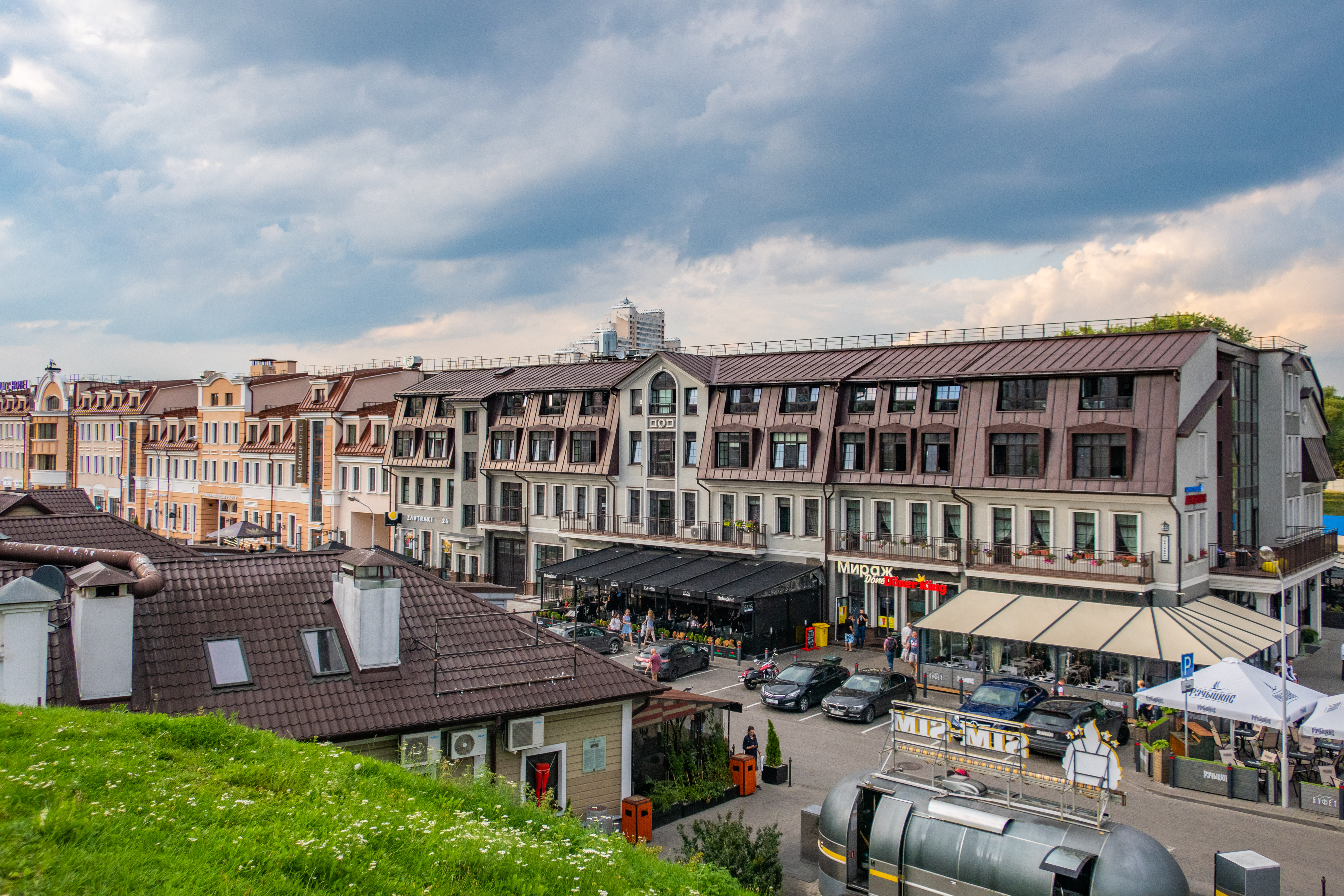 Zybickaja street. Minsk, Belarus